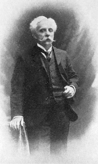 Photograph of Gabriel Fauré by Eugène Pirou (1841–1909).